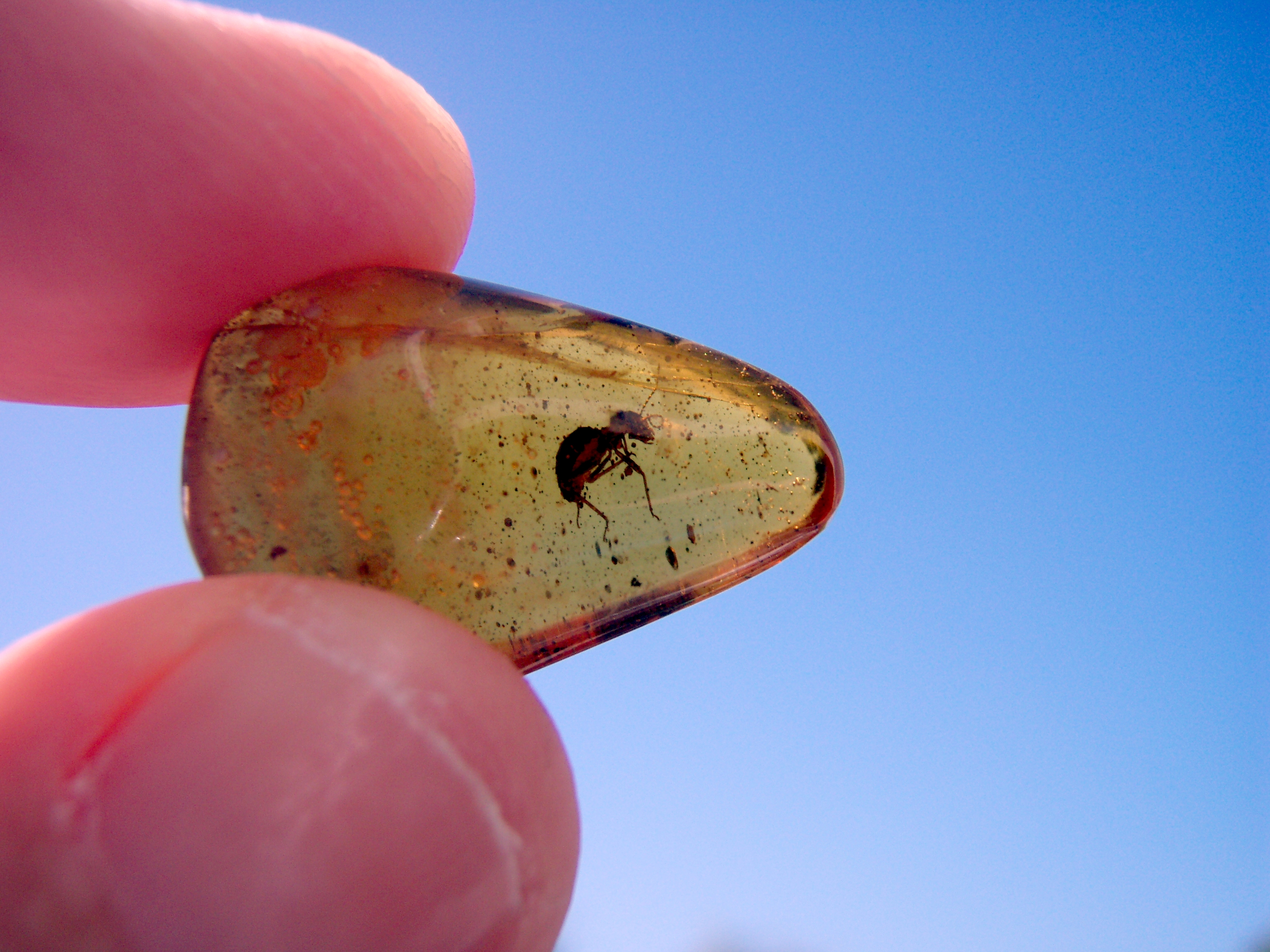 An ant in the small piece of Amber (1.5cm * 2cm)